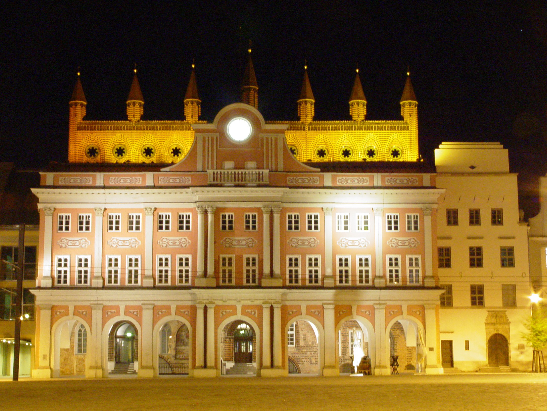 Rathaus Rostock at night